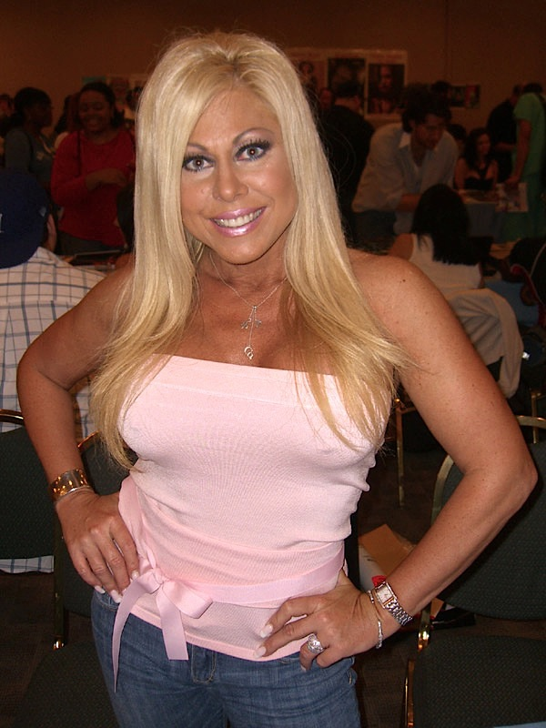 Professional wrestler Terri Runnels at the Big Apple Summer Sizzler in Manhattan, June 13, 2009.